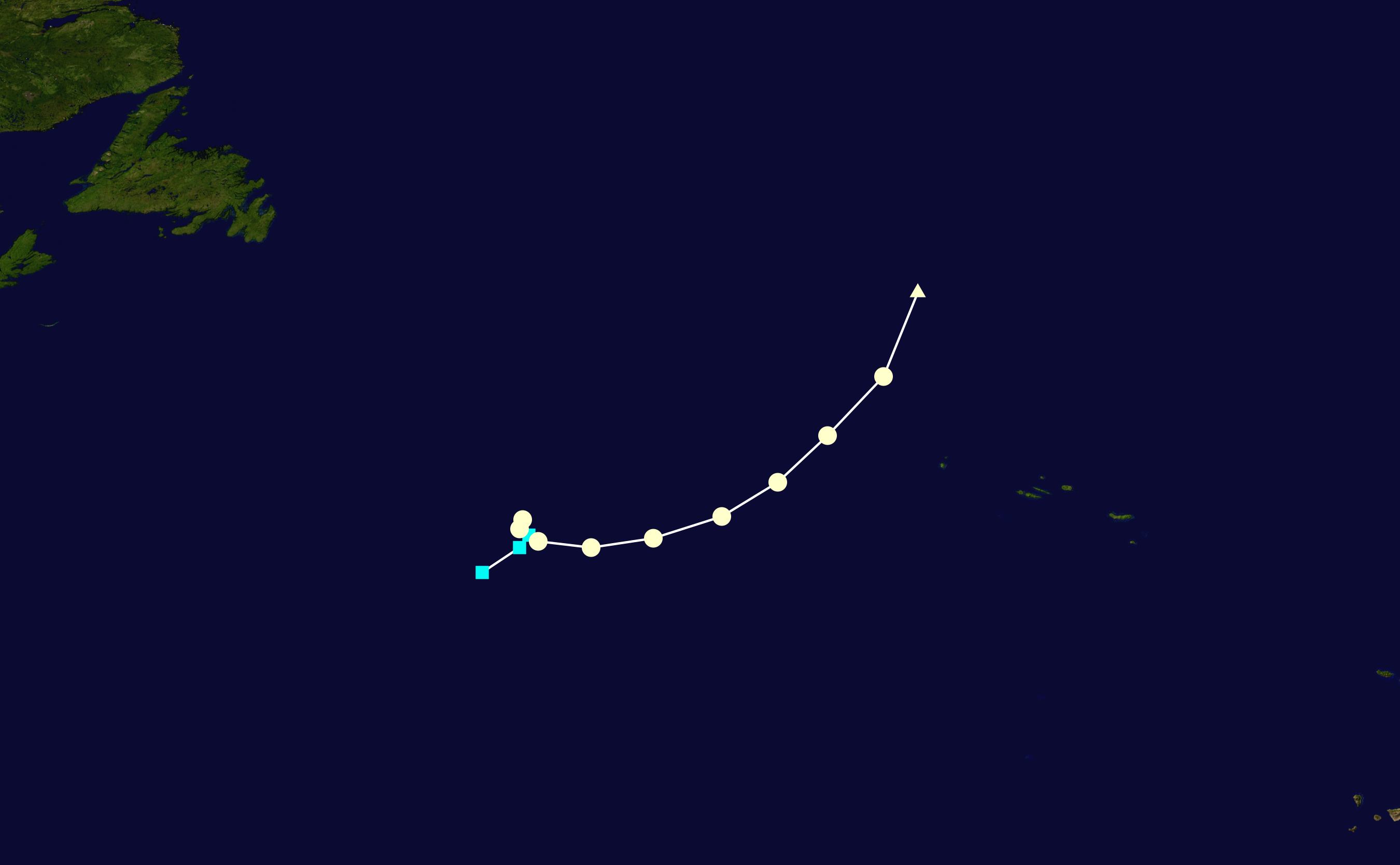 Hurricane Karl (1980) track. Uses the color scheme from the Saffir-Simpson Hurricane Scale.